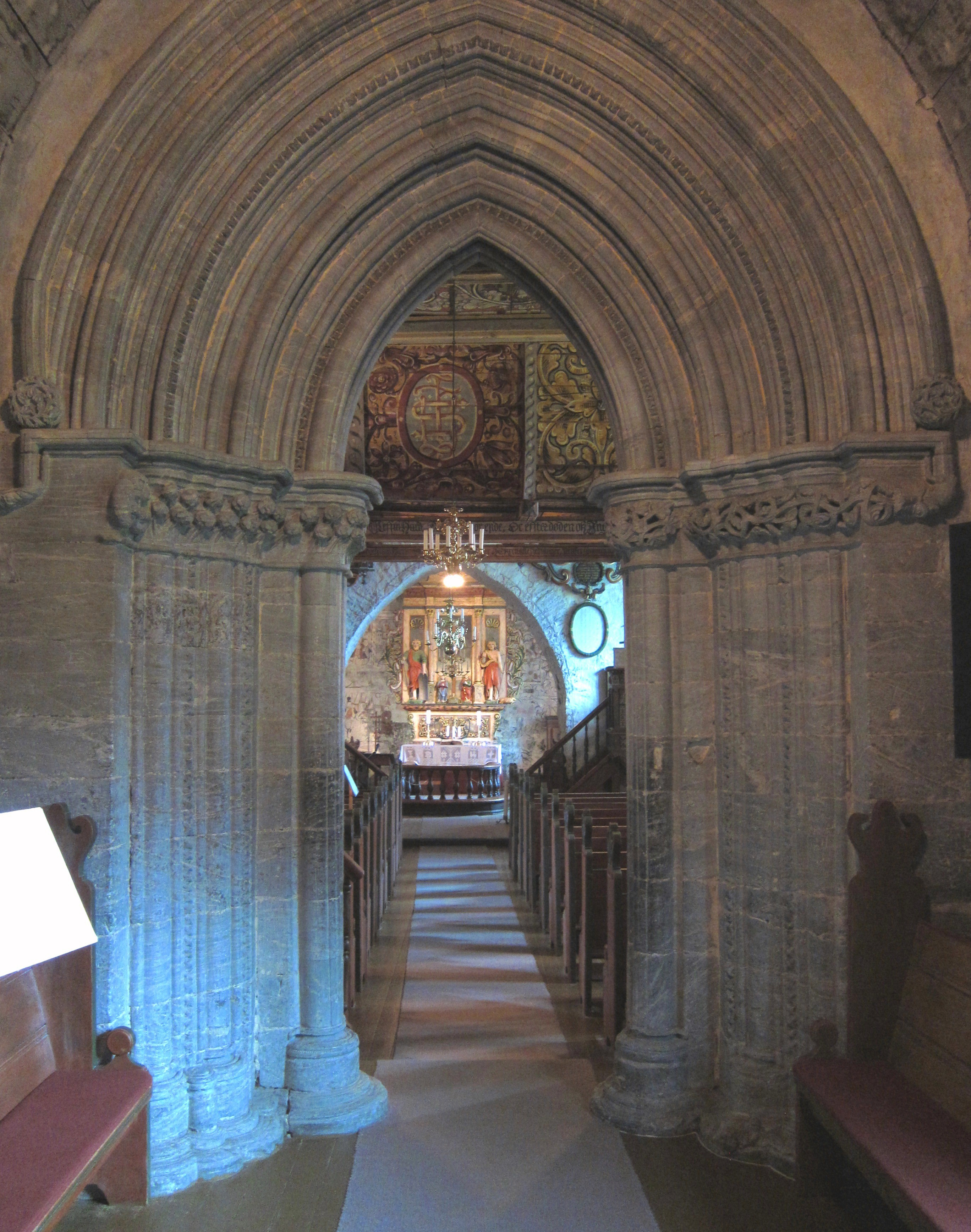 Dale church in Luster, Sogn, portal made from soapstone